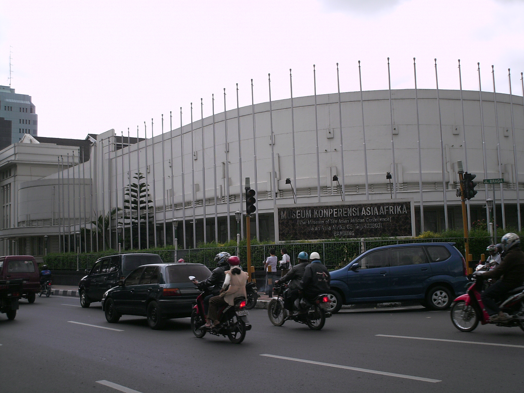 Gedung Merdeka, the museum of the Asian-African Conference in Bandung